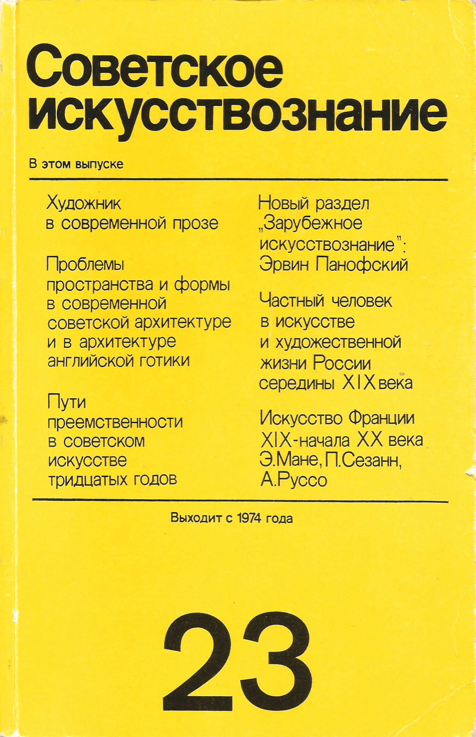 Almanac «Soviet Art Studies». Volume 23 (1988)